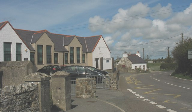 Ysgol Gymuned Bodorgan Community School